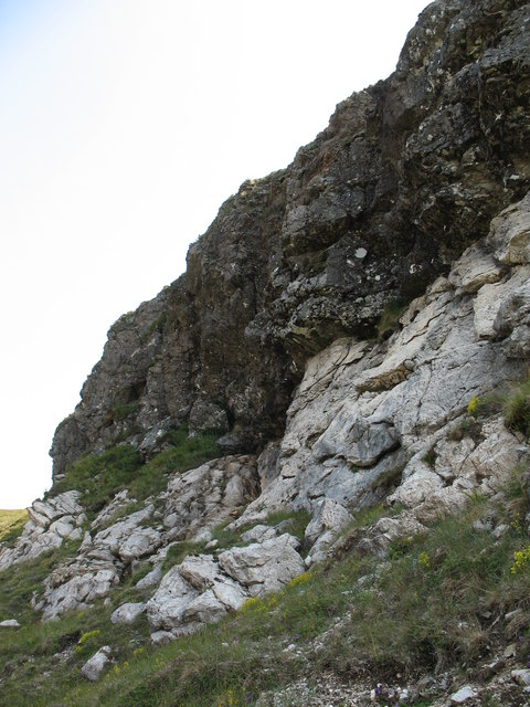 The Moine Thrust at Knockan Crag One of the most significant geological features in Scotland can be seen here. Pale Cambrian limestones of about 500 million years age are overlain by Moine schists, which are nearer 1000 million years in age. Huge tectonic plate movements have pushed the schists up and over the younger rocks and caused this 'upside down' unconformity.